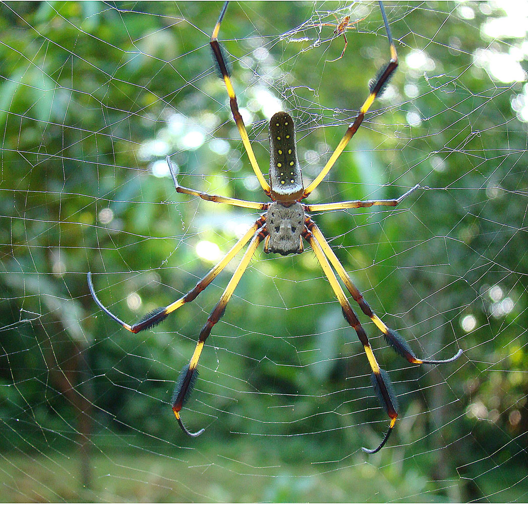 Also known as the Golden Silk Orbweaver or as Araña Seda de Oro. Basitimentos Island, Panama. In context at